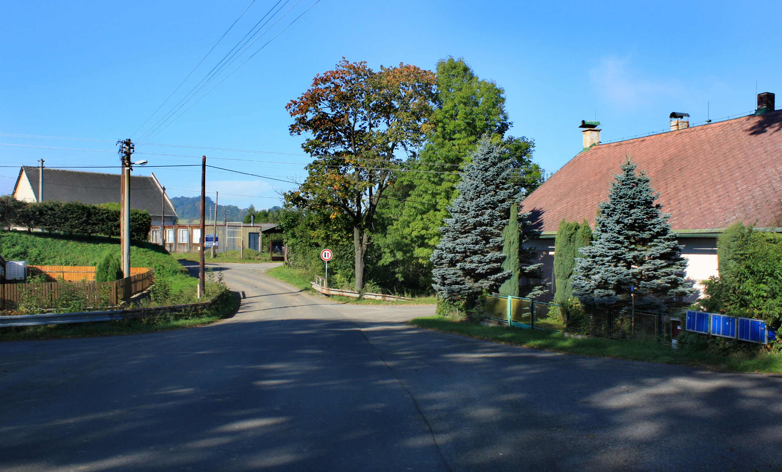 Common in Větrov, part of Frýdlant, Czech Republic